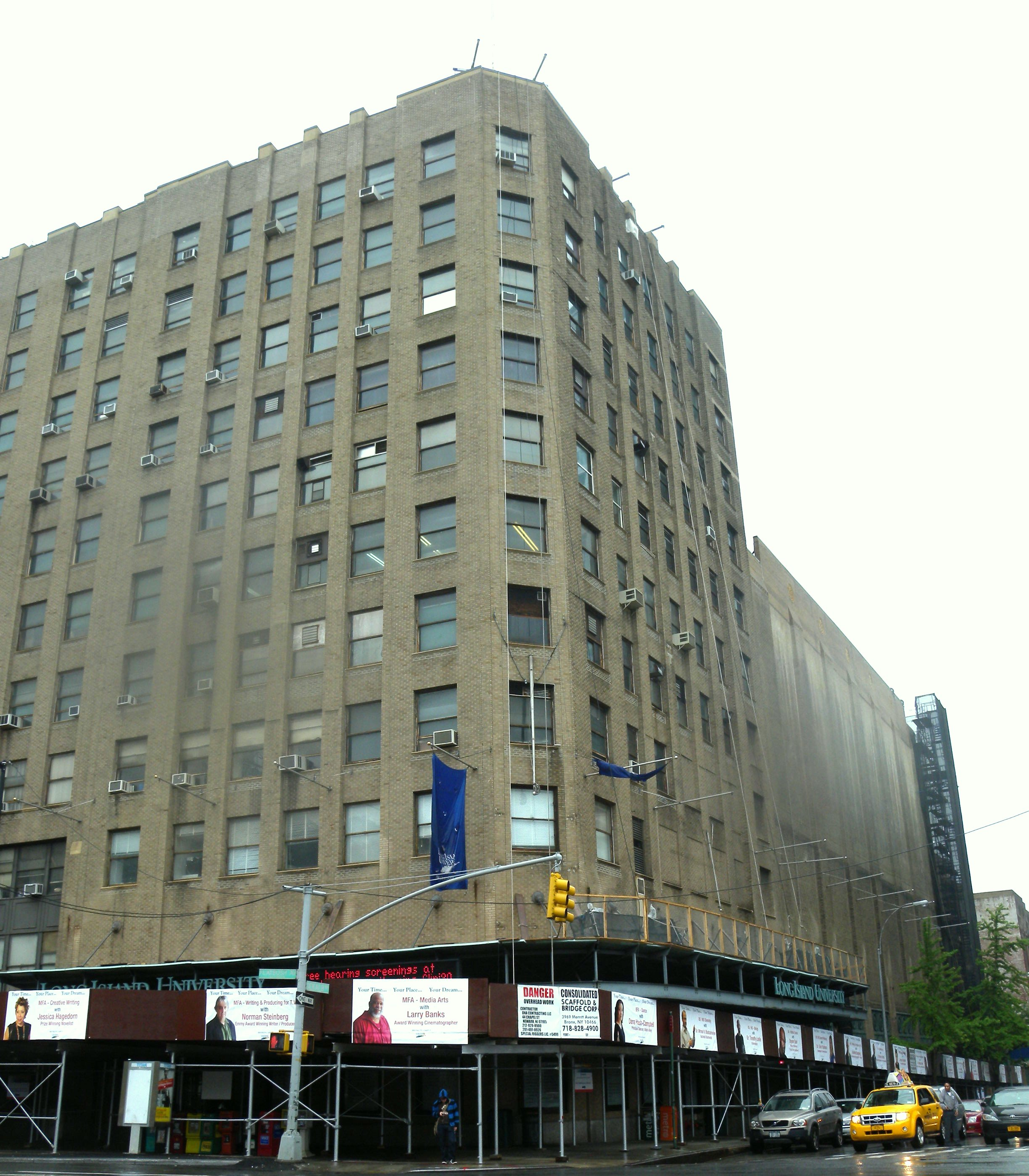 Looking east across Flatbush and Dekalb Avenues at former Paramount Theater on a rainy day.